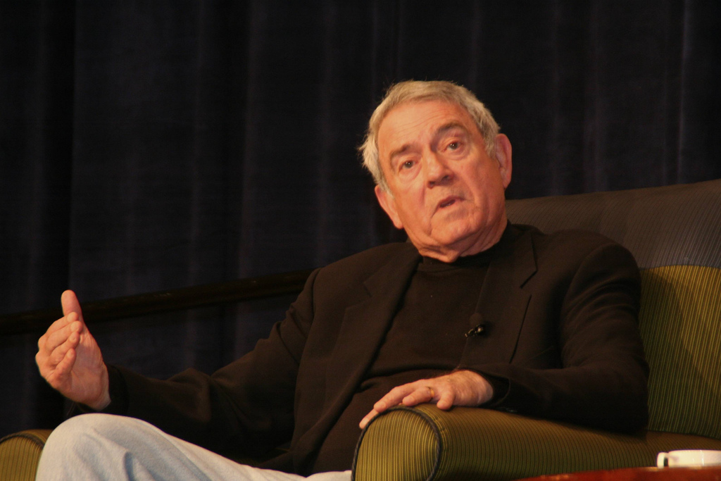 Dan Rather delivered a great talk at sxsw on the media, the internet, and asking the "hard questions" Also note this is a Creative Commons Attribution photo so if you need it, please use it, but please also give credit!